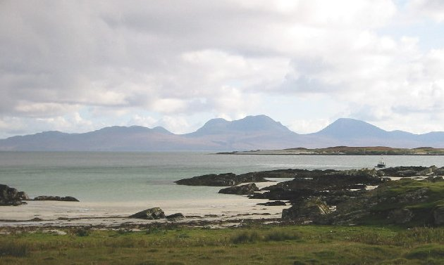 View from one of the small beaches on the east coast of Oronsay. In the middle distance is Eilean Ghaoideamal and in the distance the Paps of Jura